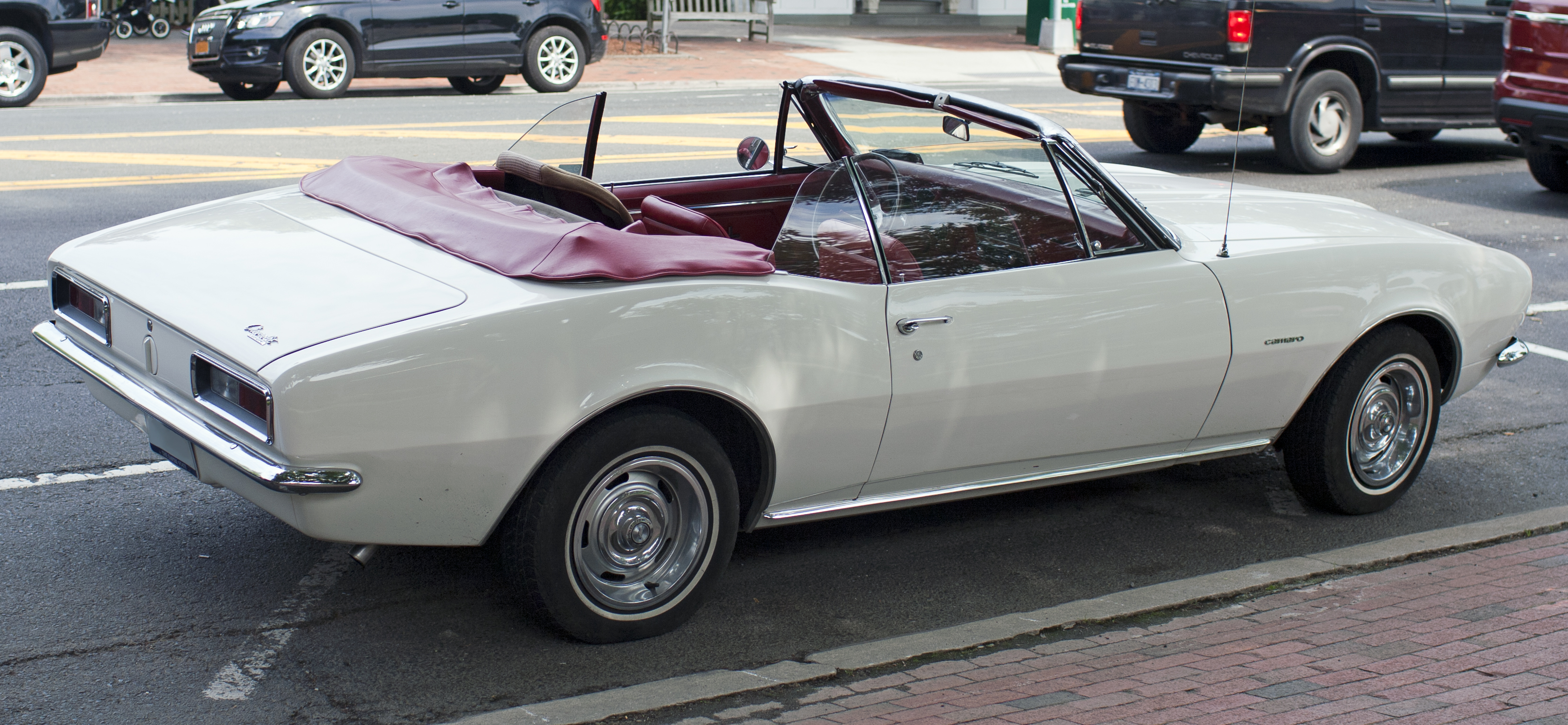 Rear ¾ view of 1967 Chevrolet Camaro Convertible, base car with six-cylinder engine, seen in East Hampton, NY.